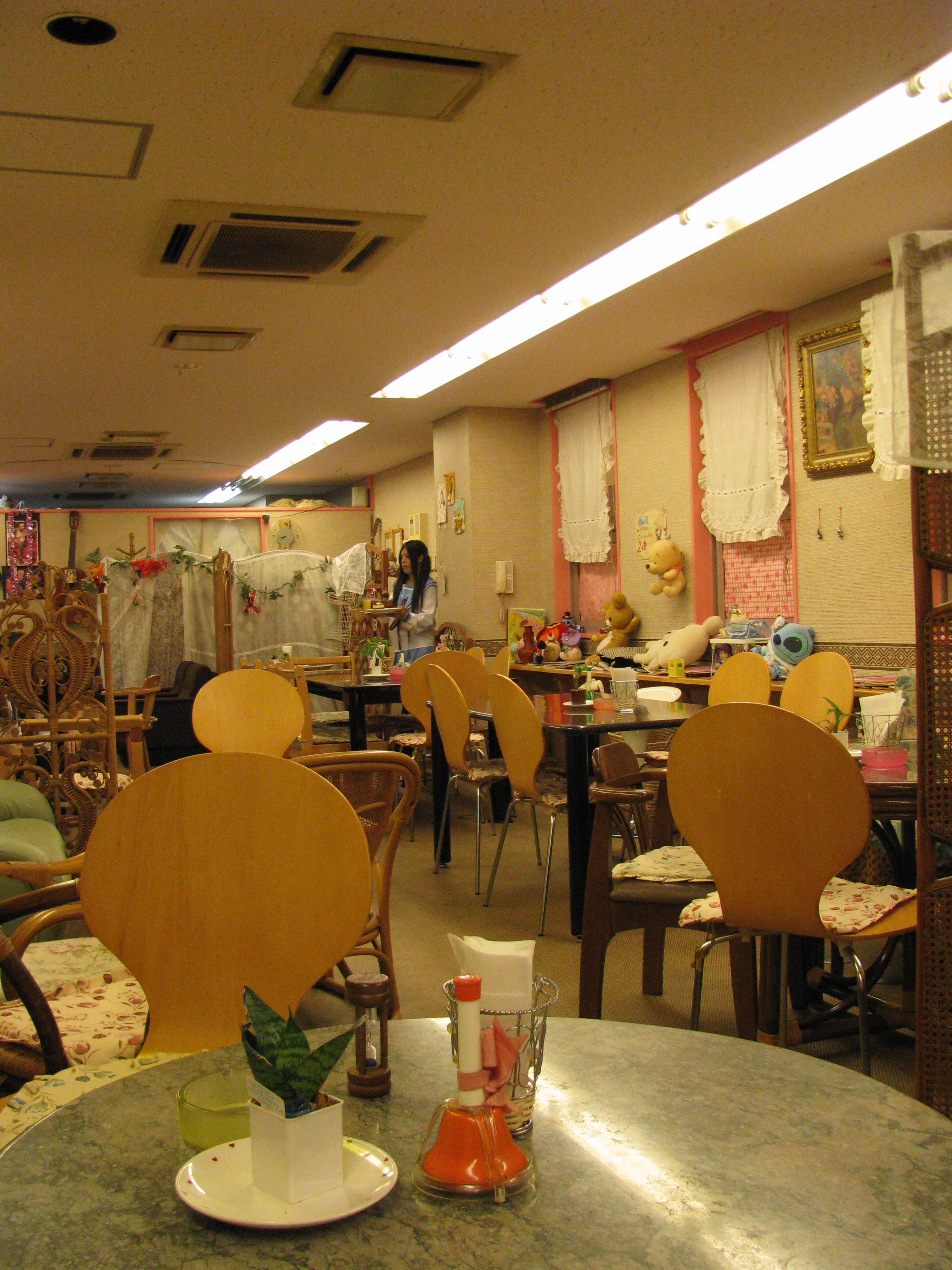 Inside a Maid Cafe in Den-Den Town, Osaka, Japan